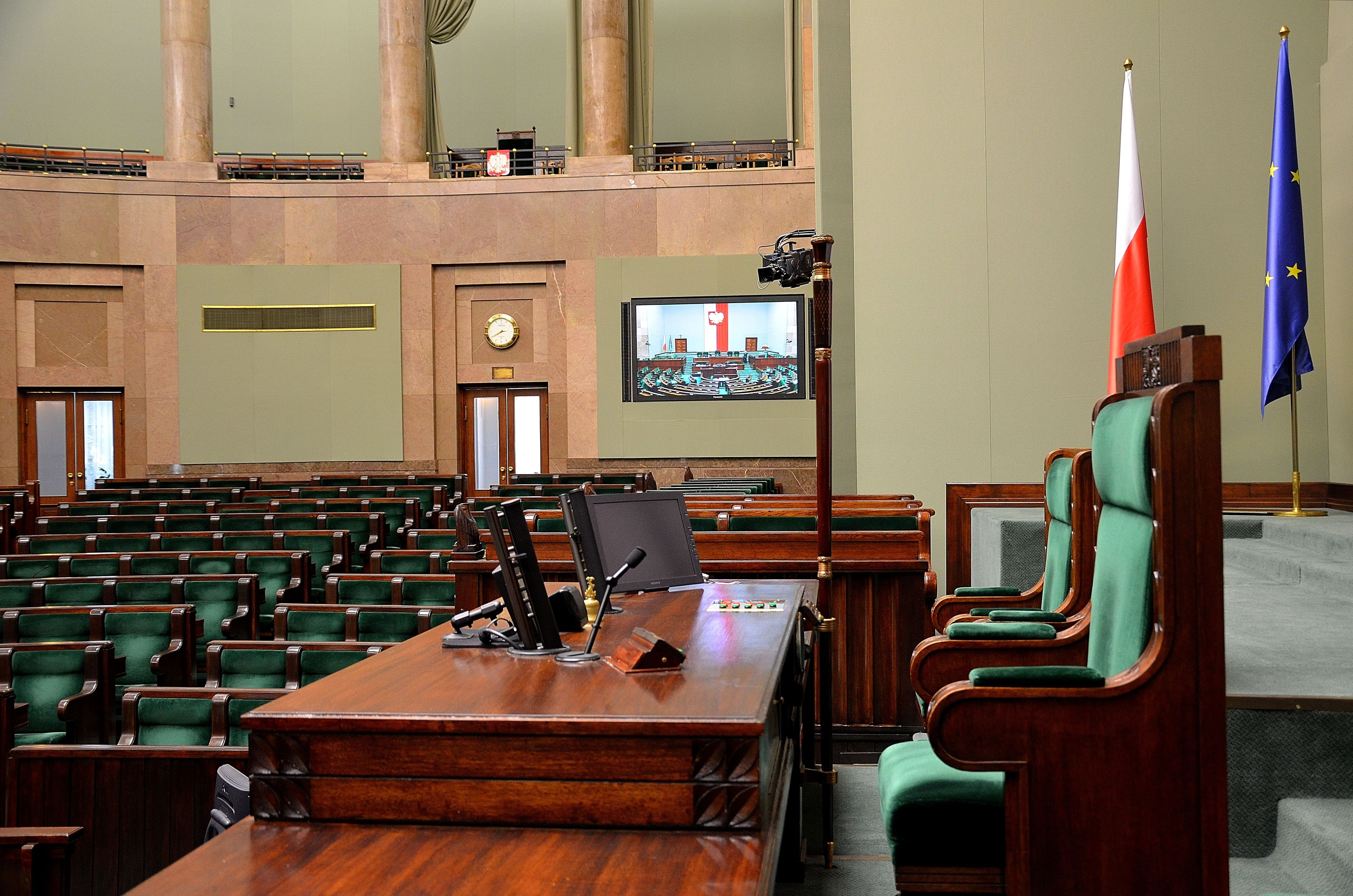 Marshal's chair in the Sejm Plenary Hall